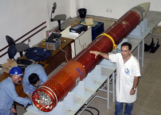 Payload section of a VSB-30 sounding rocket during launch preparations